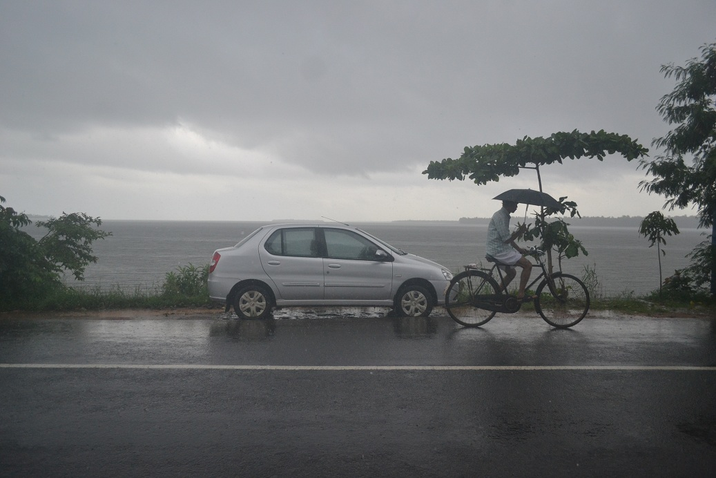 Rain at thaneermukkam bund